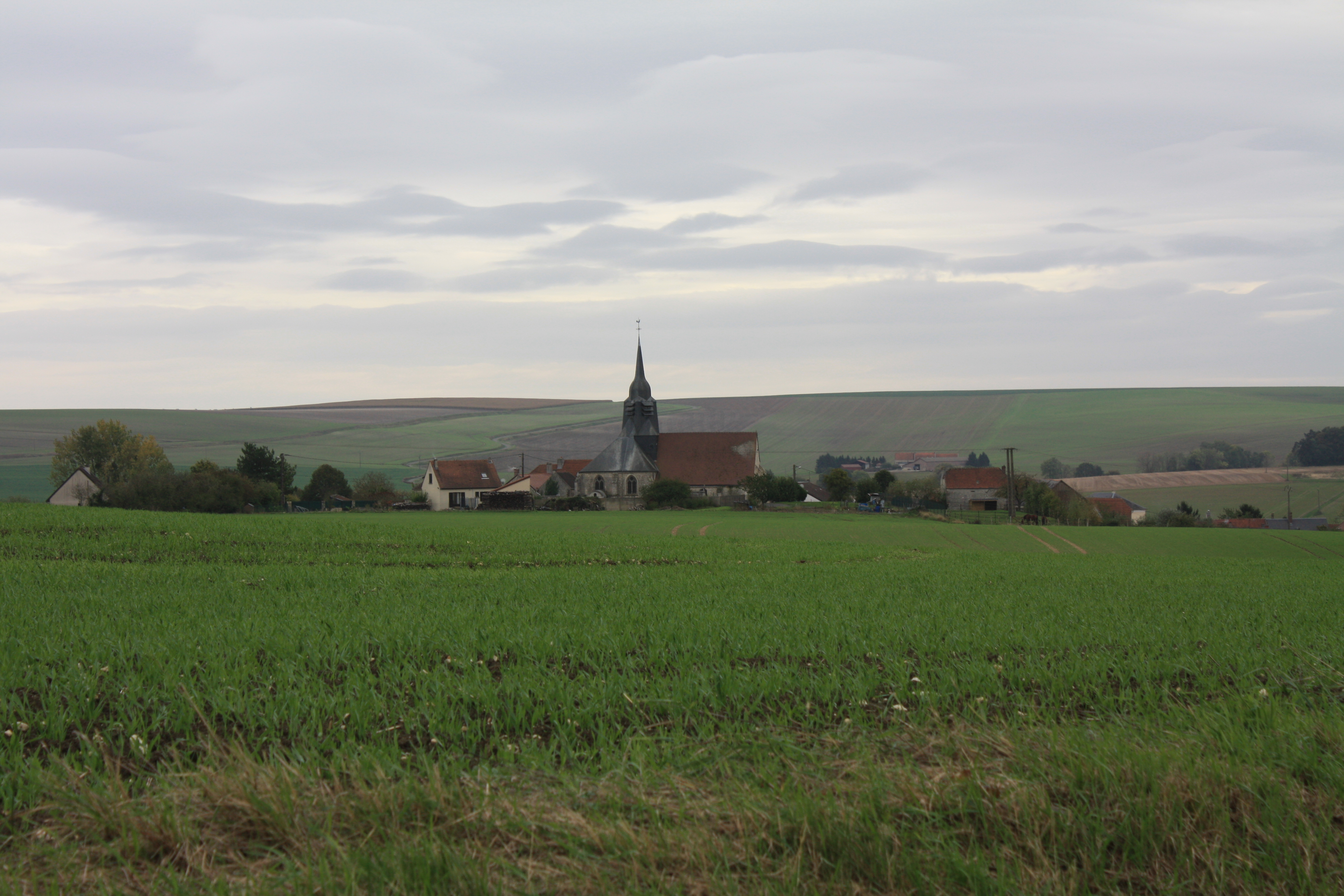 Village de Chéry-Chartreuve